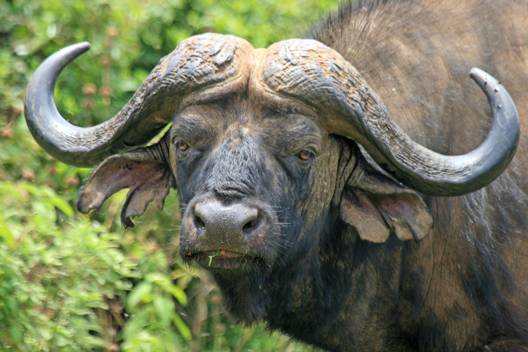 African buffalo in Aberdare National Park, Kenya